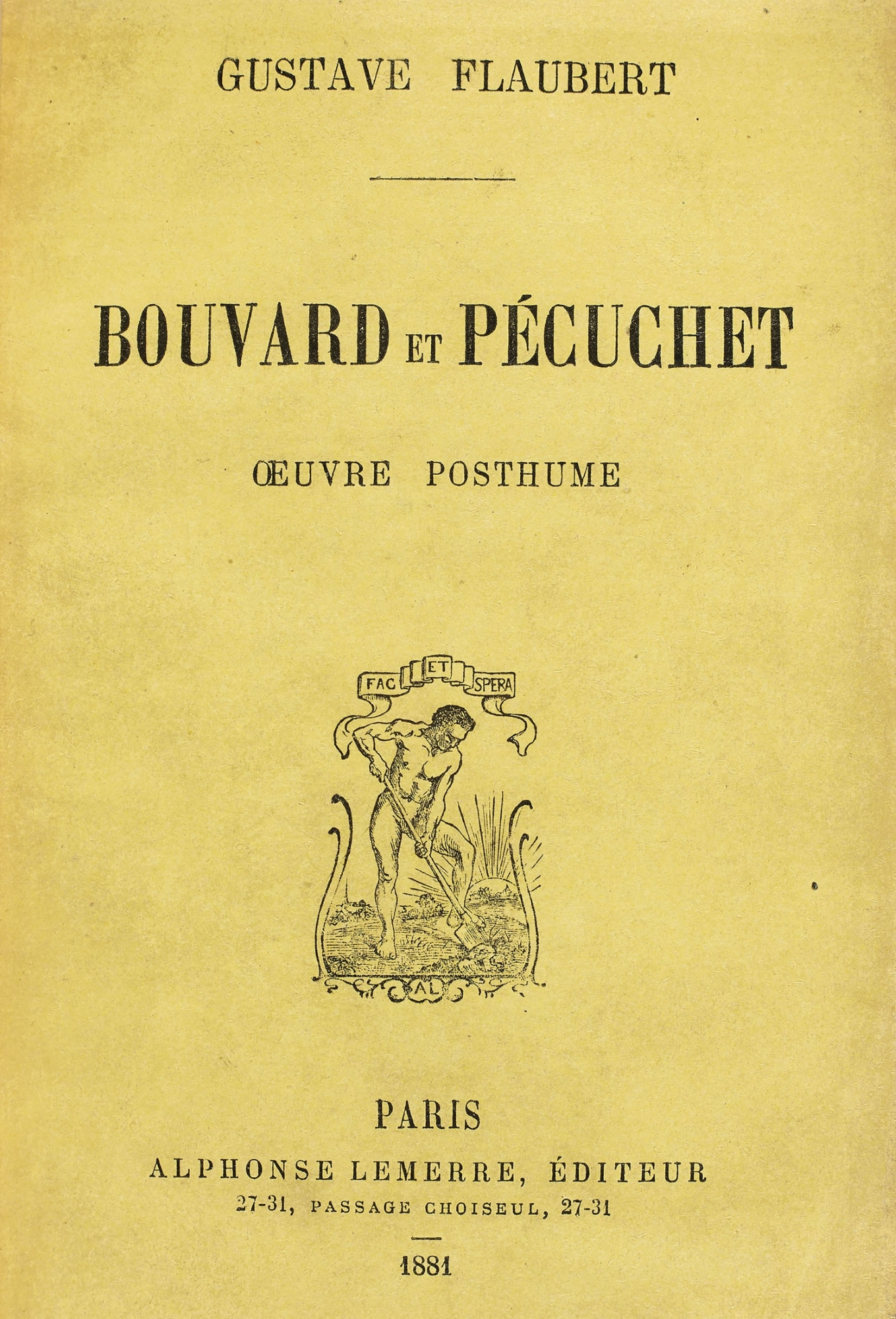 Cover of Bouvard et Pécuchet, a book by Gustave Flaubert, published in Paris by Alphonse Lemerre.